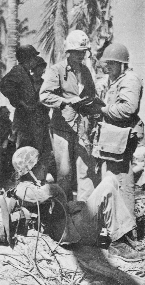 Colonel David M. Shoup (map case on hip) confers at his command post with one of his officers during the Battle of Tarawa. Helmeted figure with hands on hips (second to left of Shoup) is Col. Merritt A. Edson.